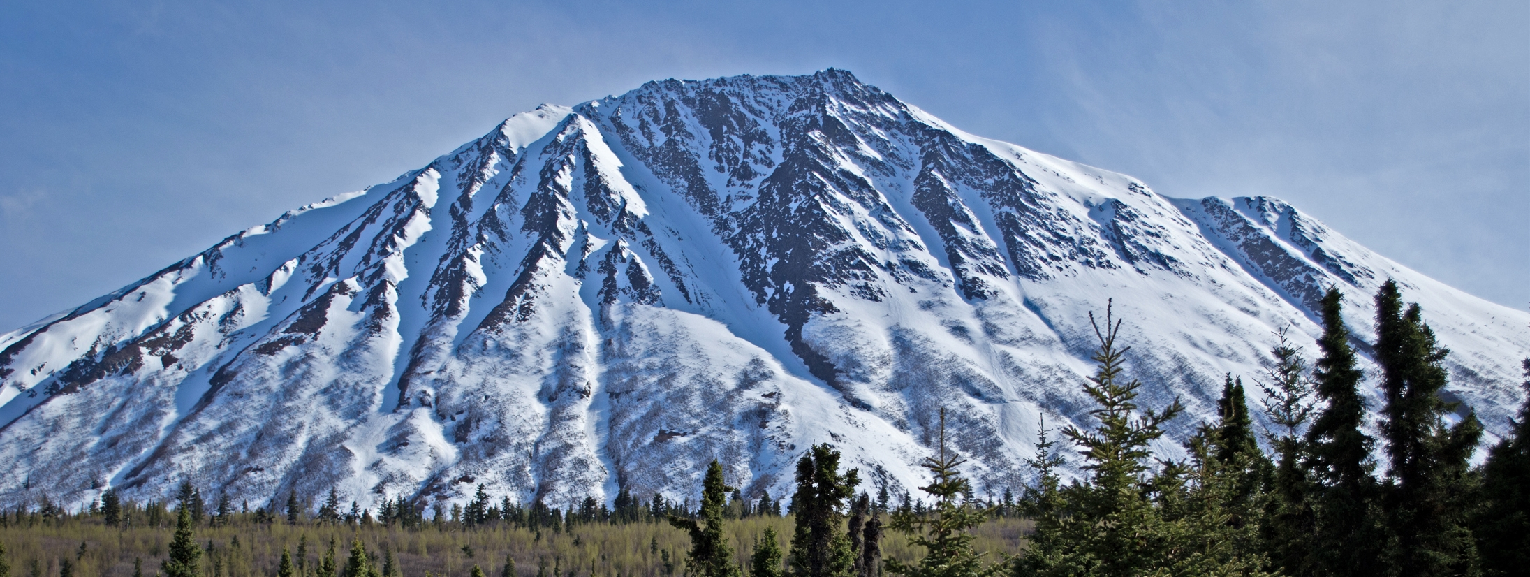 Cooper benchmark elevation 4400 ft